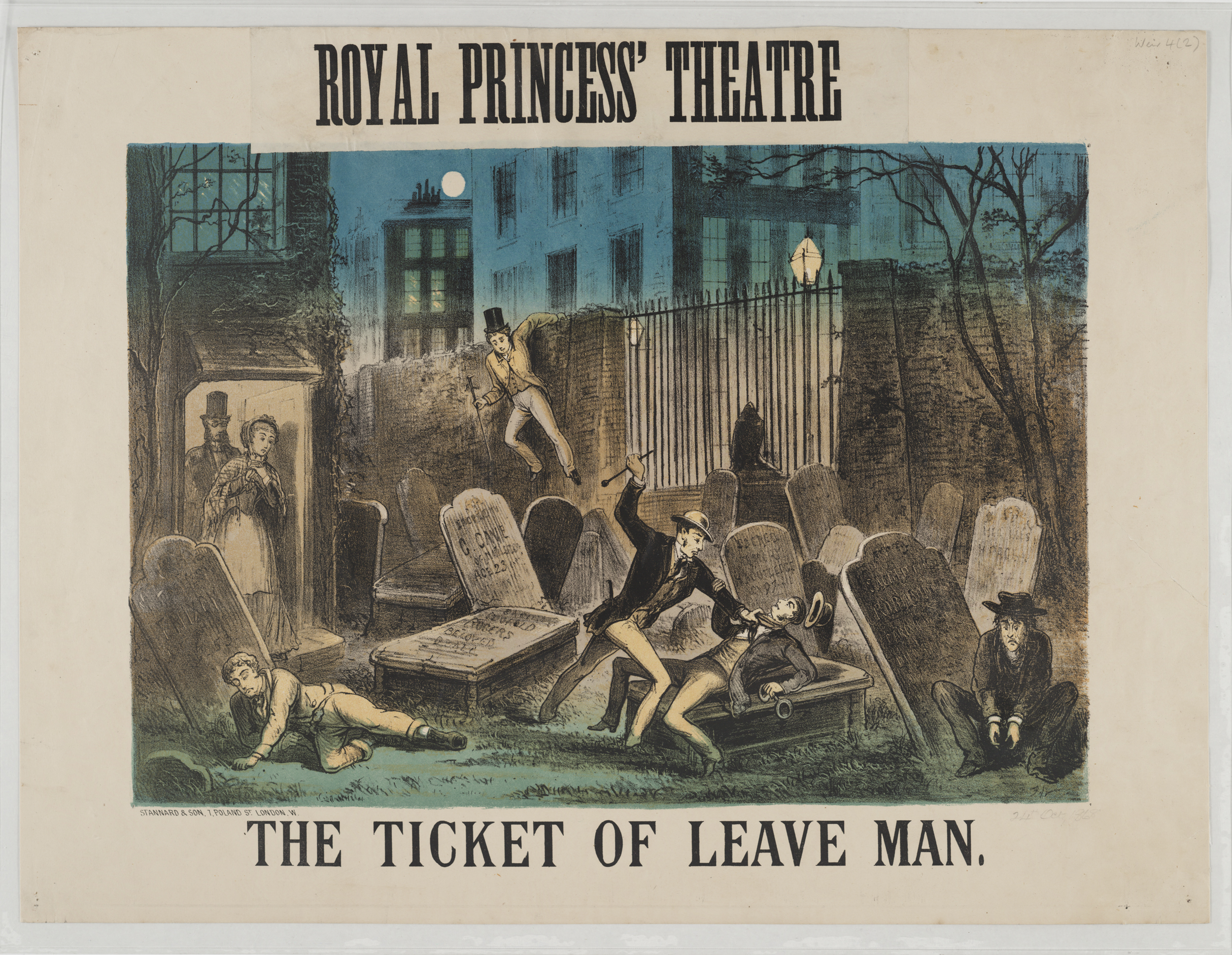 'The ticket of leave man'. Printed by Stannard & Son, 7, Poland St., London, W.